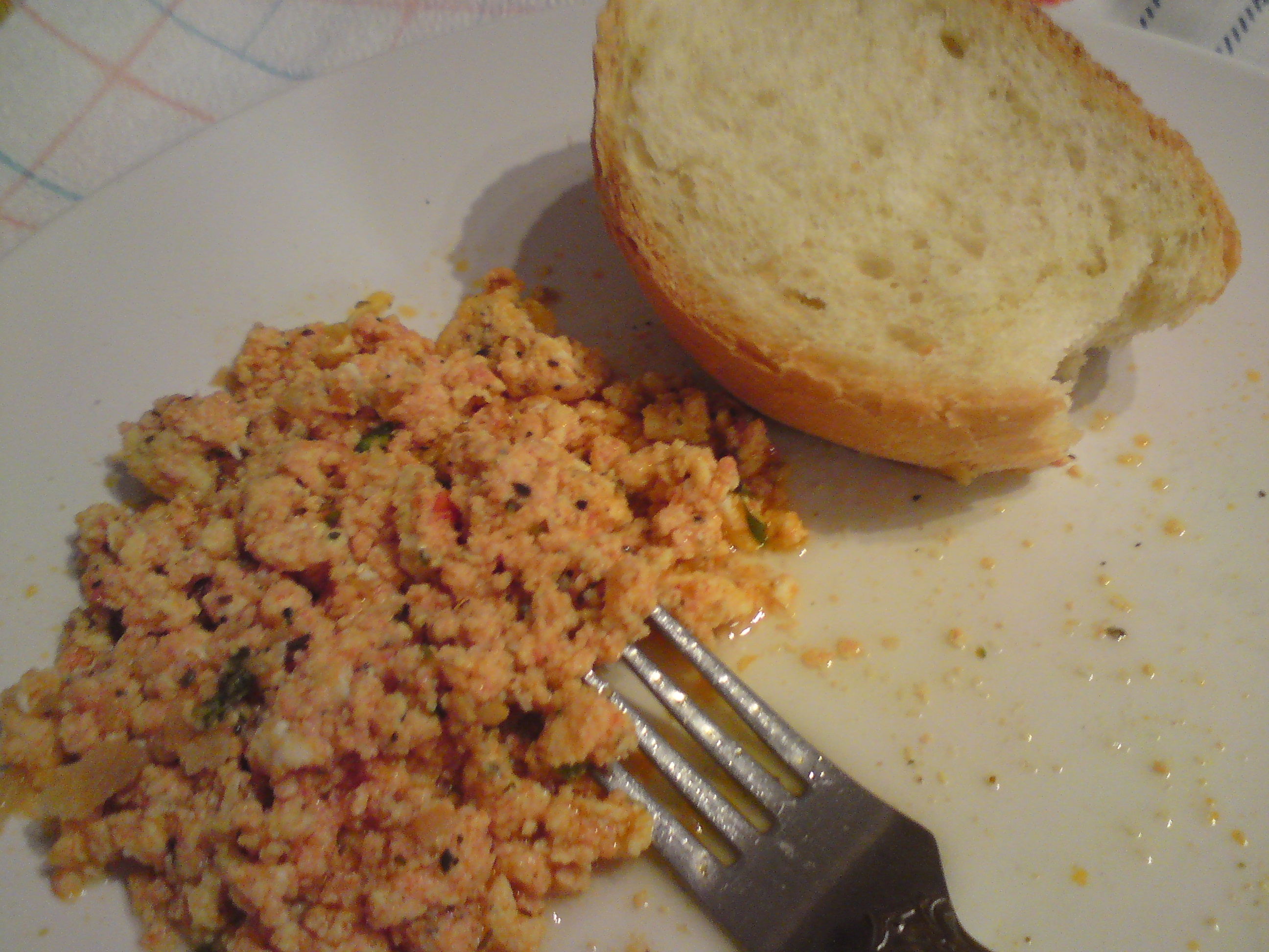 A quick Greek meal made from eggs scrambled in olive oil, fresh tomato puree and herbs (oregano, thyme or other). Often feta cheese is added as well.